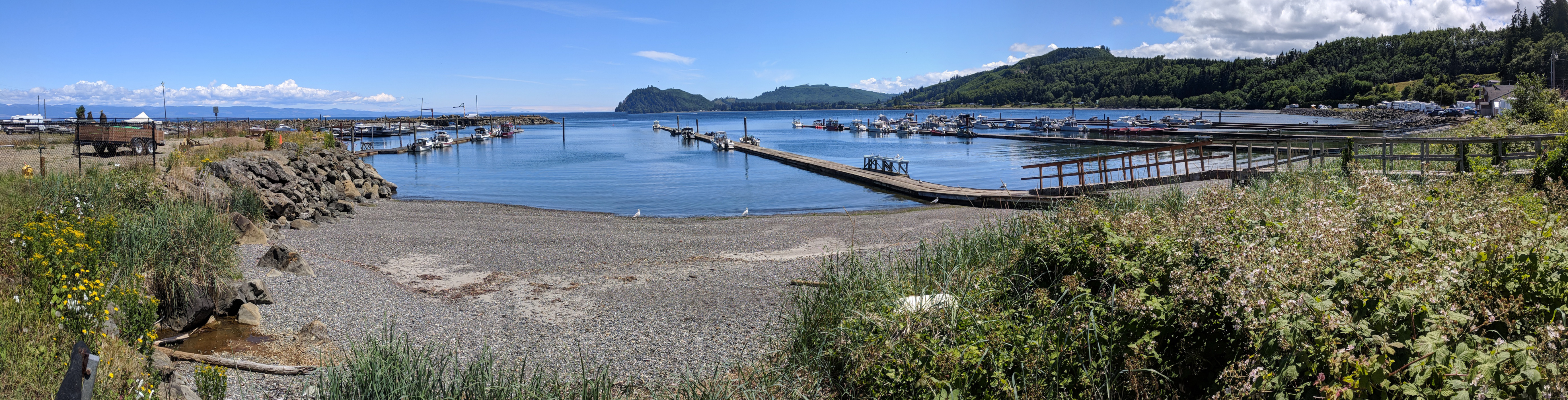 Panoramic view of the small boat harbor at Sekiu, Washington